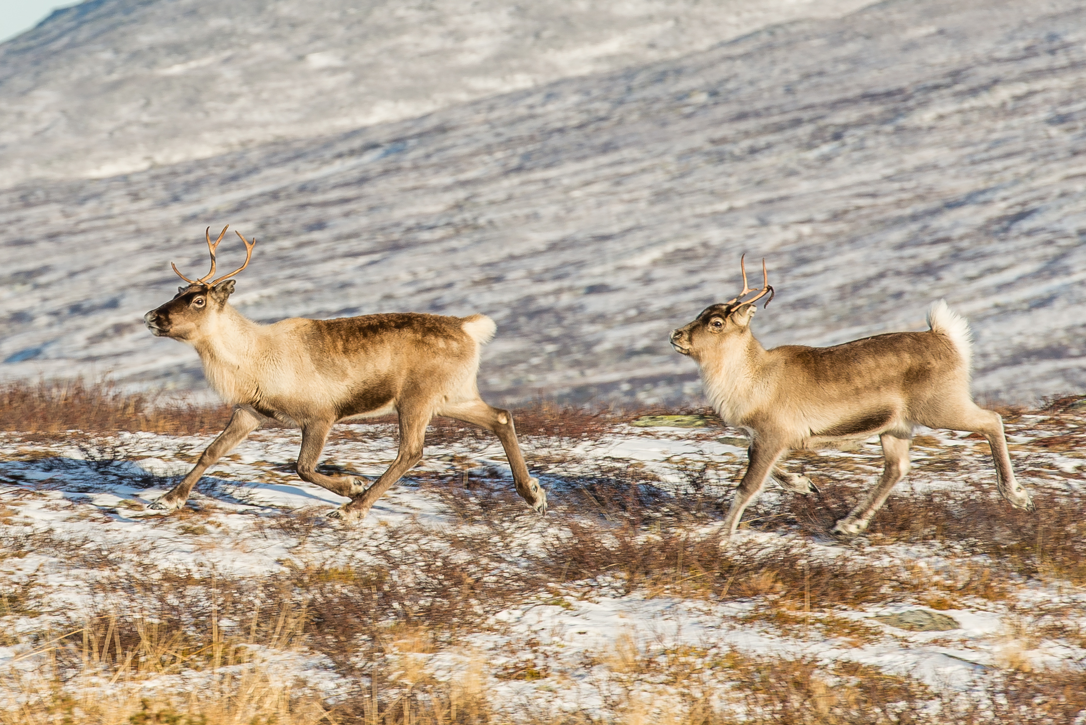 Reindeer (Rangifer tarandus) in Ljungris (Ljungdalen), Berg Municipality, Jämtland County, Sweden.